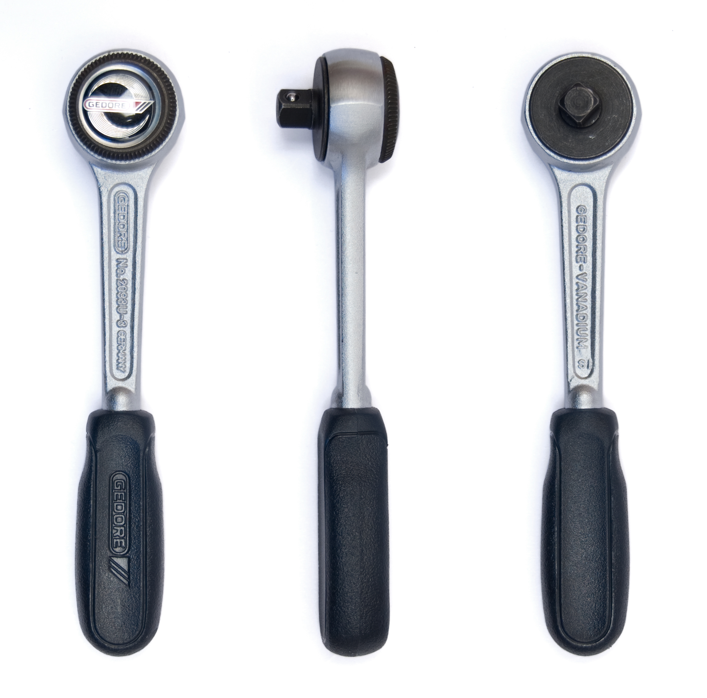 A socket wrench